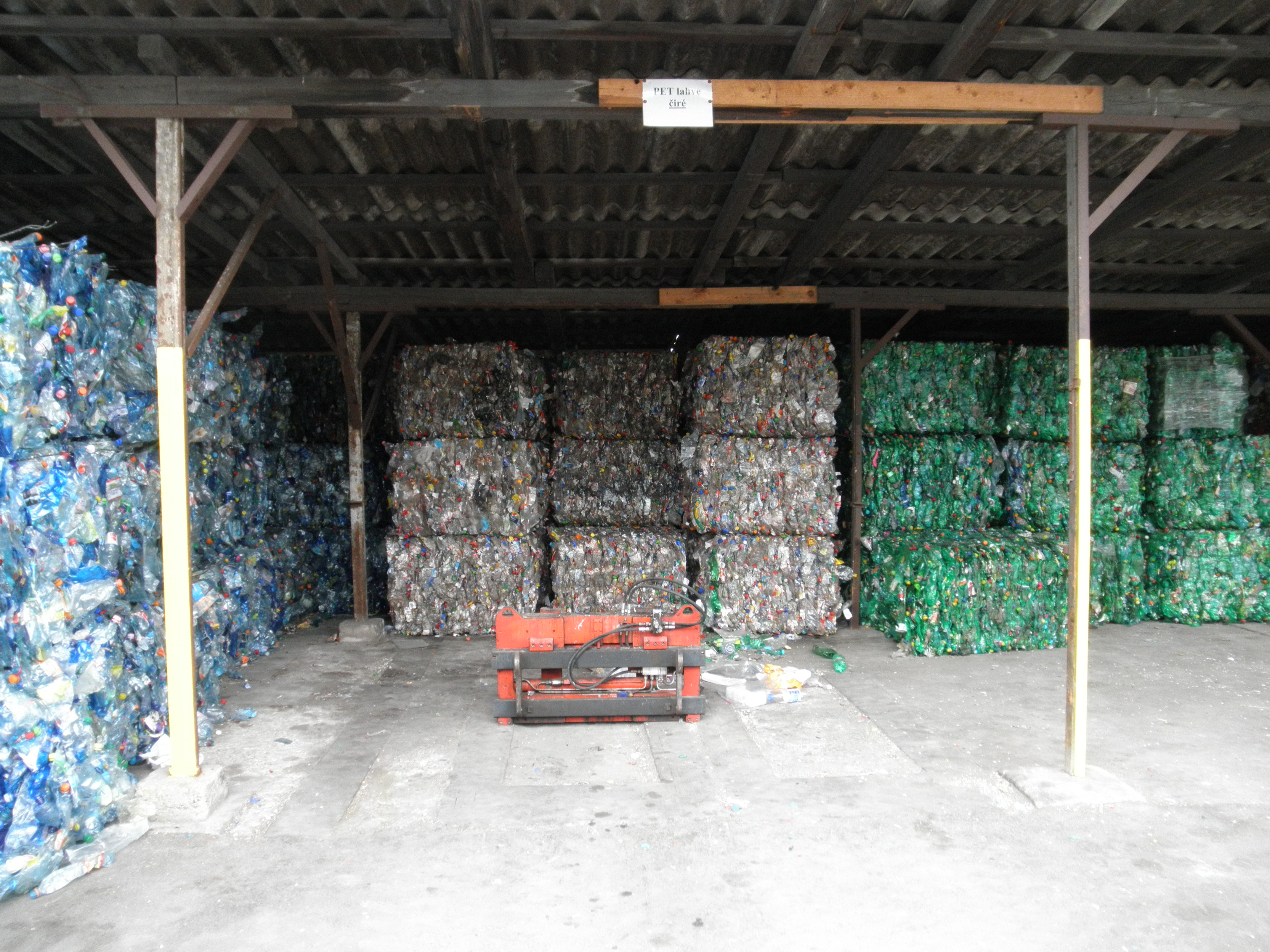 Bales of crushed PET bottles sorted according to the colour to blue, transparent and green ones. In Olomouc, the Czech Republic.